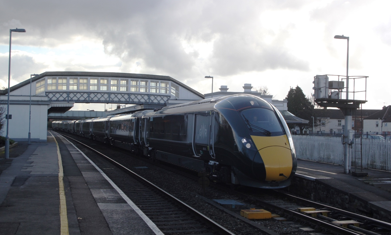 A pair of Great Western Railway 'InterCity Express Trains' 800013 and 800011, call at Bridgwater with a driver training run from Taunton to London in November 2017. This type of train is due to enter service to Taunton in December.